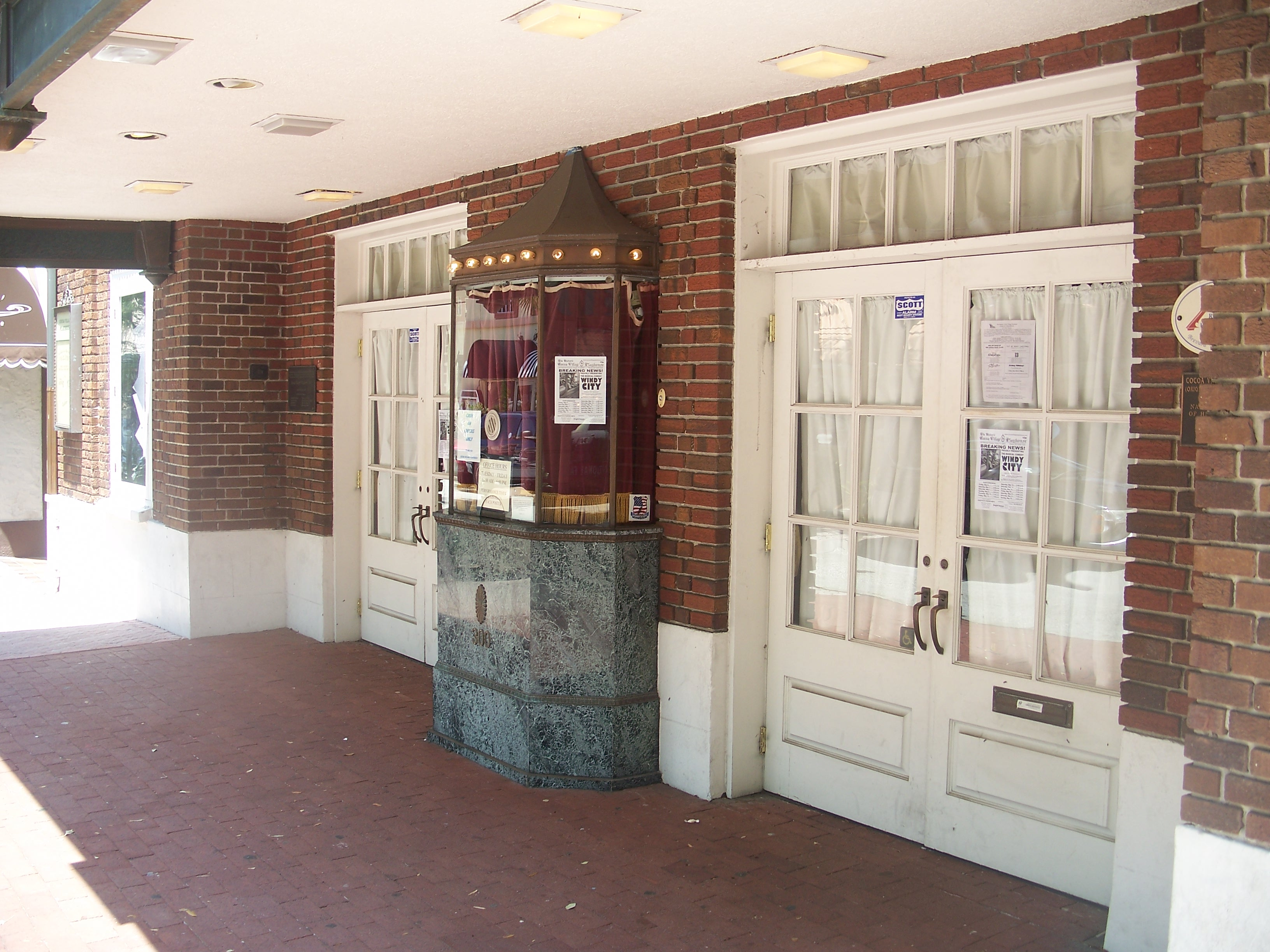 Cocoa, Florida: Aladdin Theater: Box office